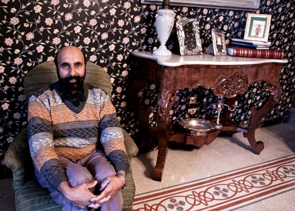 Ananda Sunia illustrator and writer